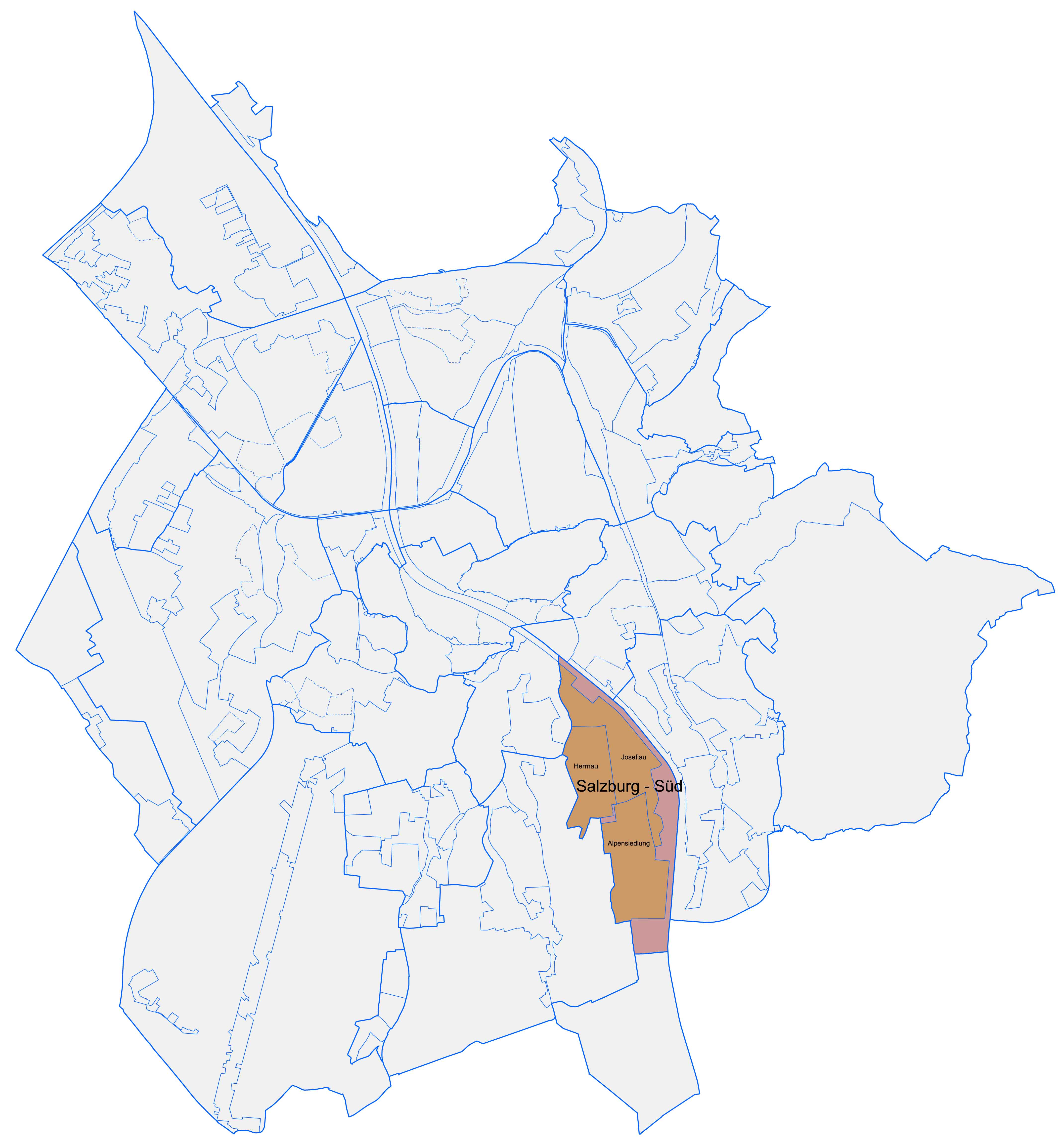 A quarter of the town of Salzburg: Salzburg Süd